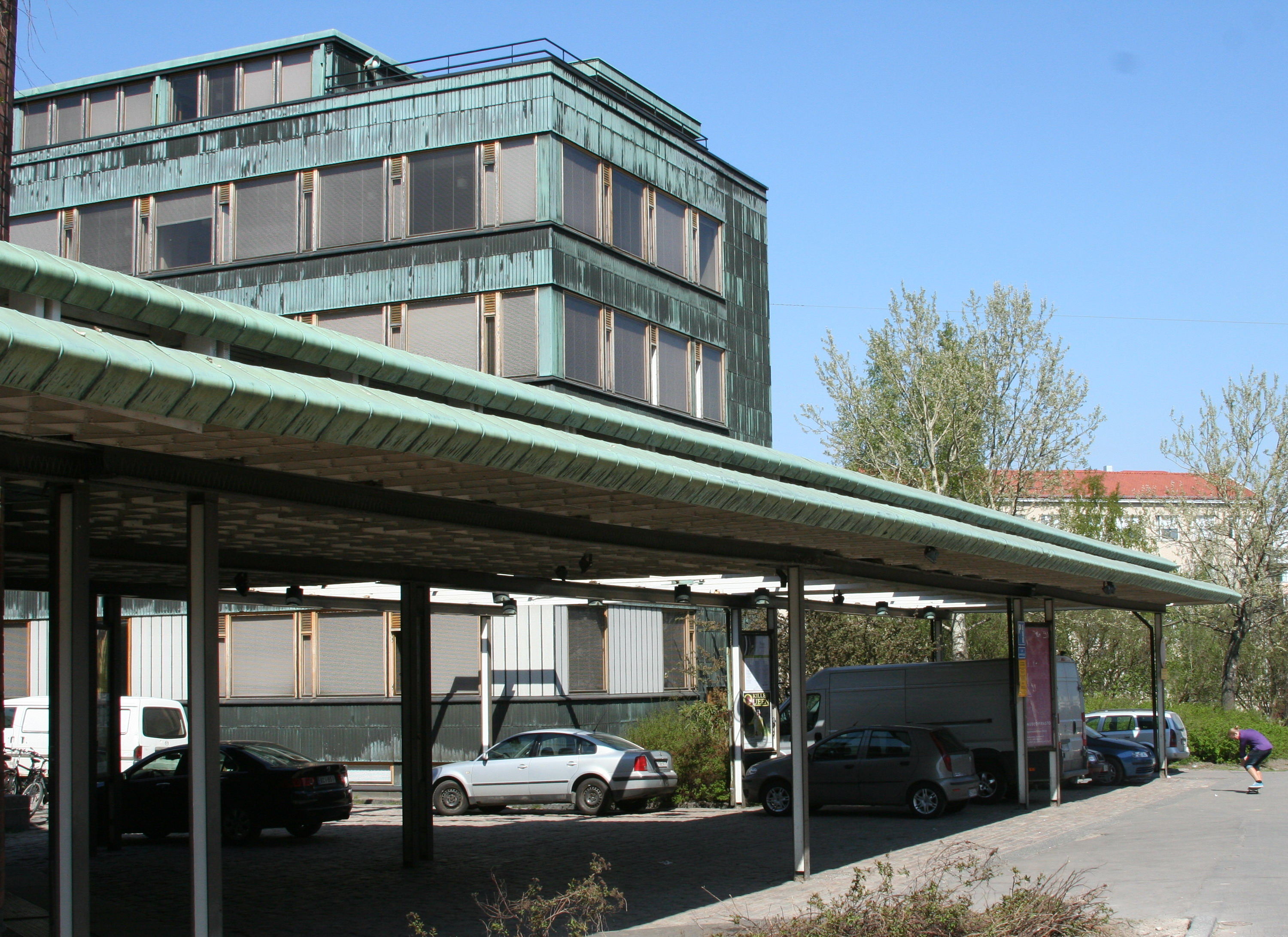 House of Culture, Helsinki, Finland. Architect Alvar Aalto. Canopy and office wing.